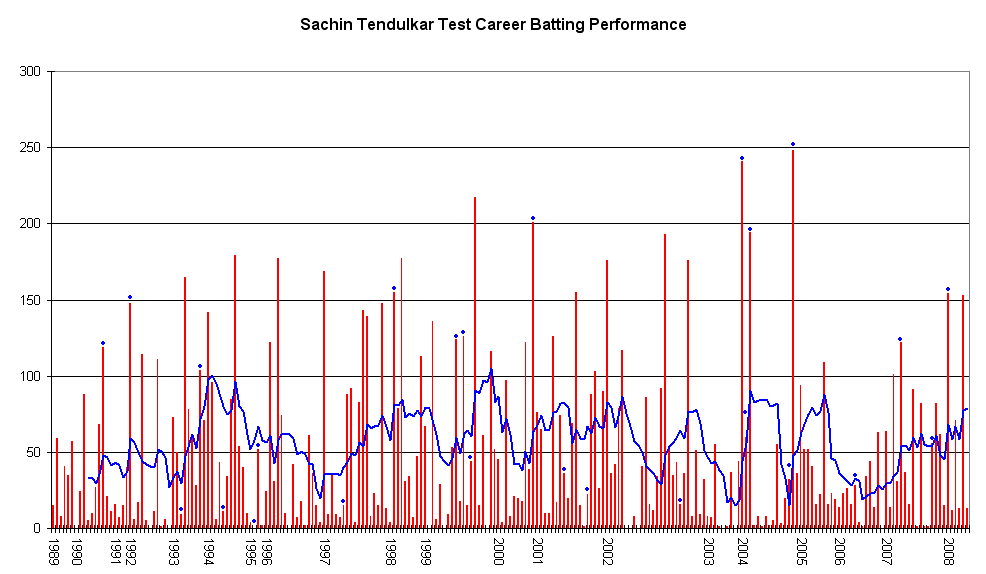 This graph details the Test Match performance of Sachin Tendulkar. It was created by Raven4x4x. The red bars indicate the player's test match innings, while the blue line shows the average of the ten most recent innings at that point. Note that this average cannot be calculated for the first nine innings. The blue dots indicate innings in which Tendulkar finished not-out. This graph was generated with Microsoft Excel 2002, using data from Cricinfo [1] and Howstat [2]. The information in this chart is current as of 2 February, 2008.